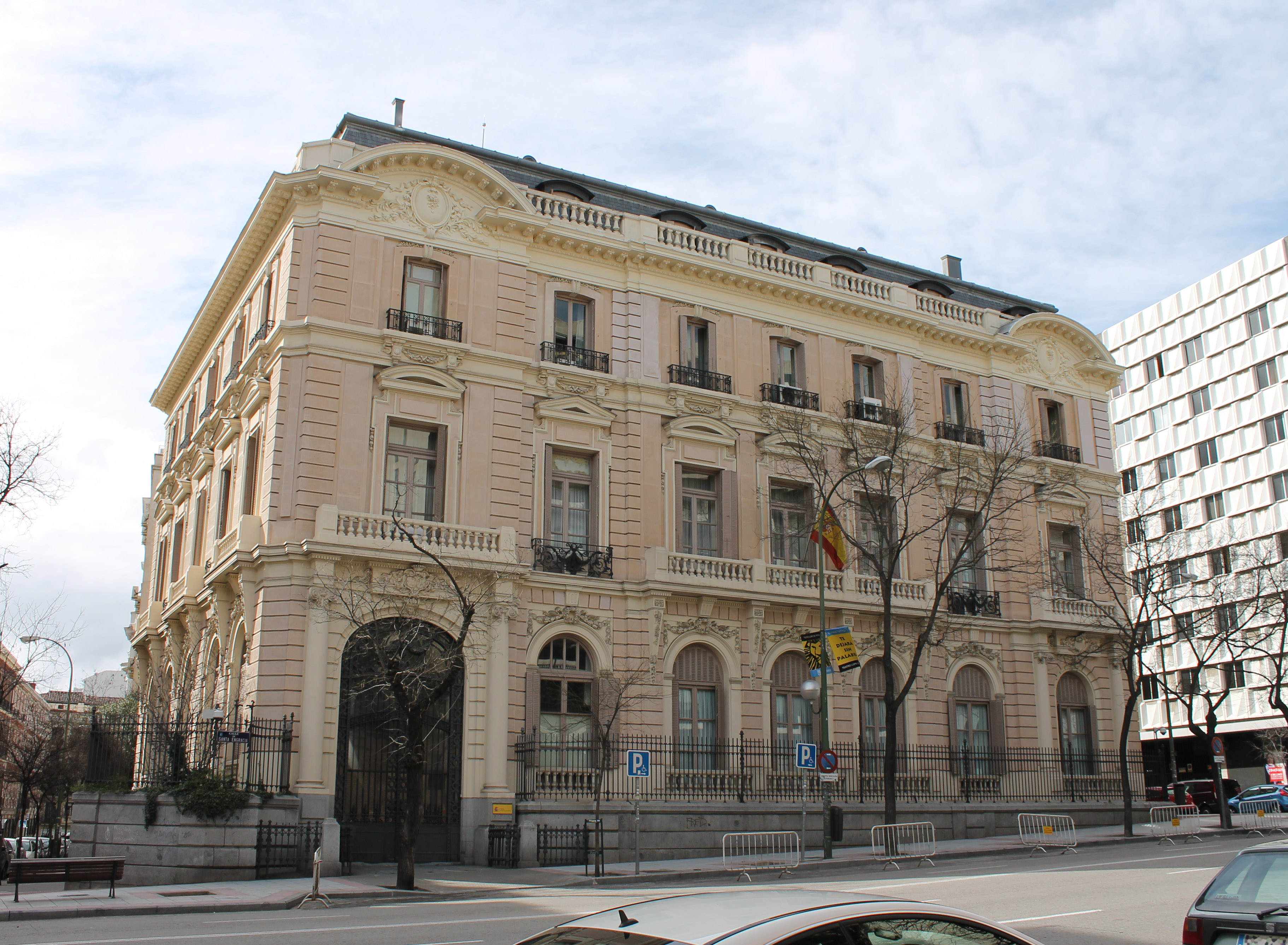 Former Palace of the Countess of Adanero in Madrid (Spain).